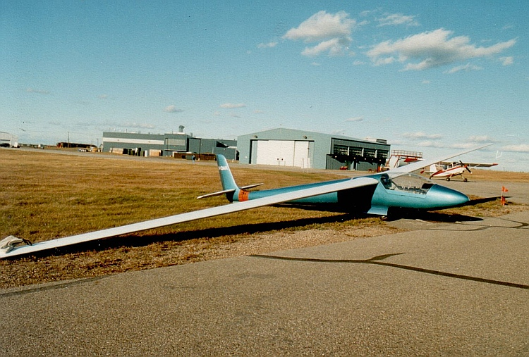 I took this photo of a Slingsby Dart 17 sailplane at CFB Cold Lake in the fall of 1990.